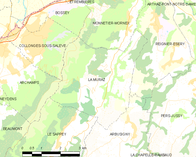 Map of French municipality La Muraz